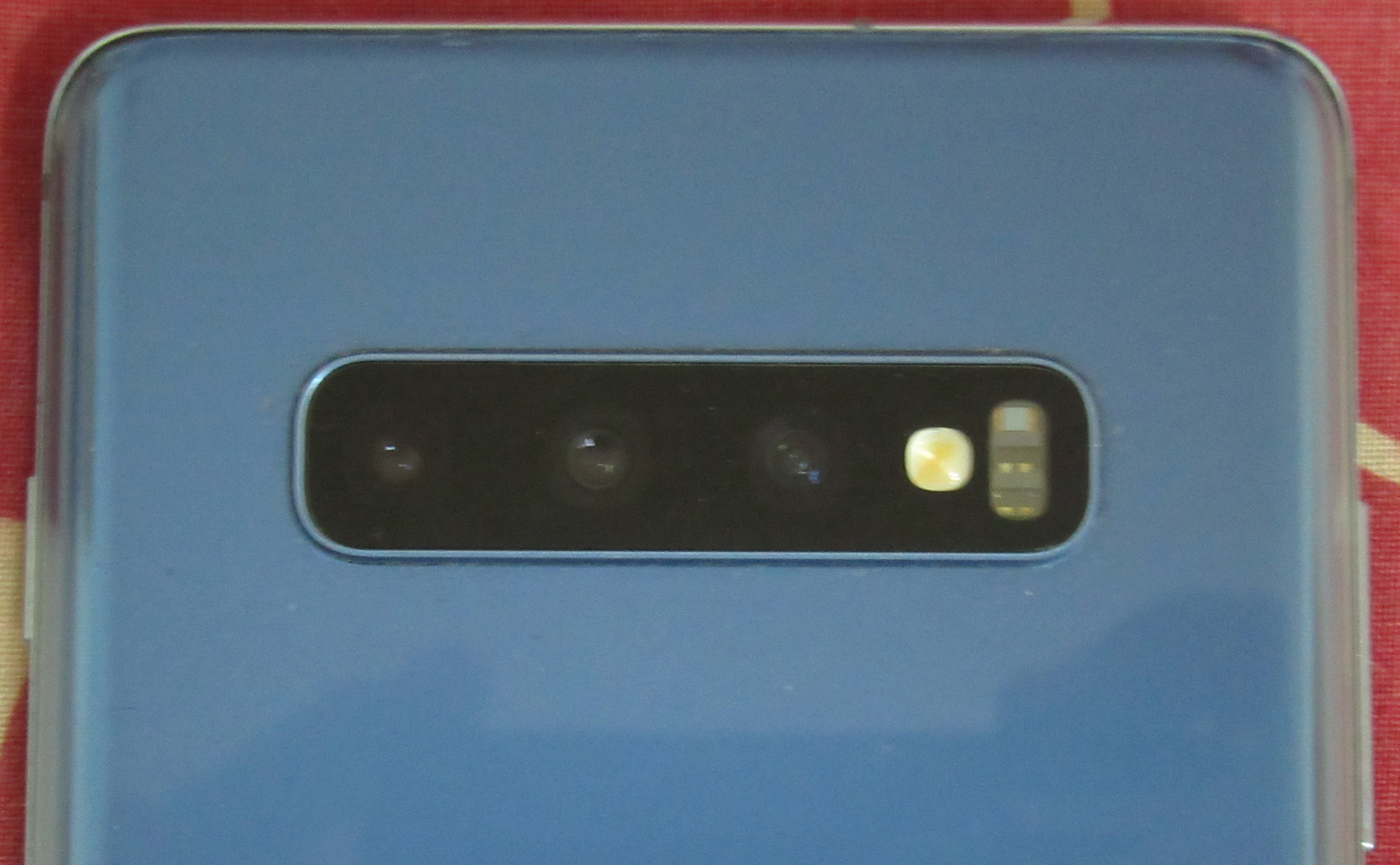 This image shows the pro grade rear cameras of Samsung Galaxy S10+